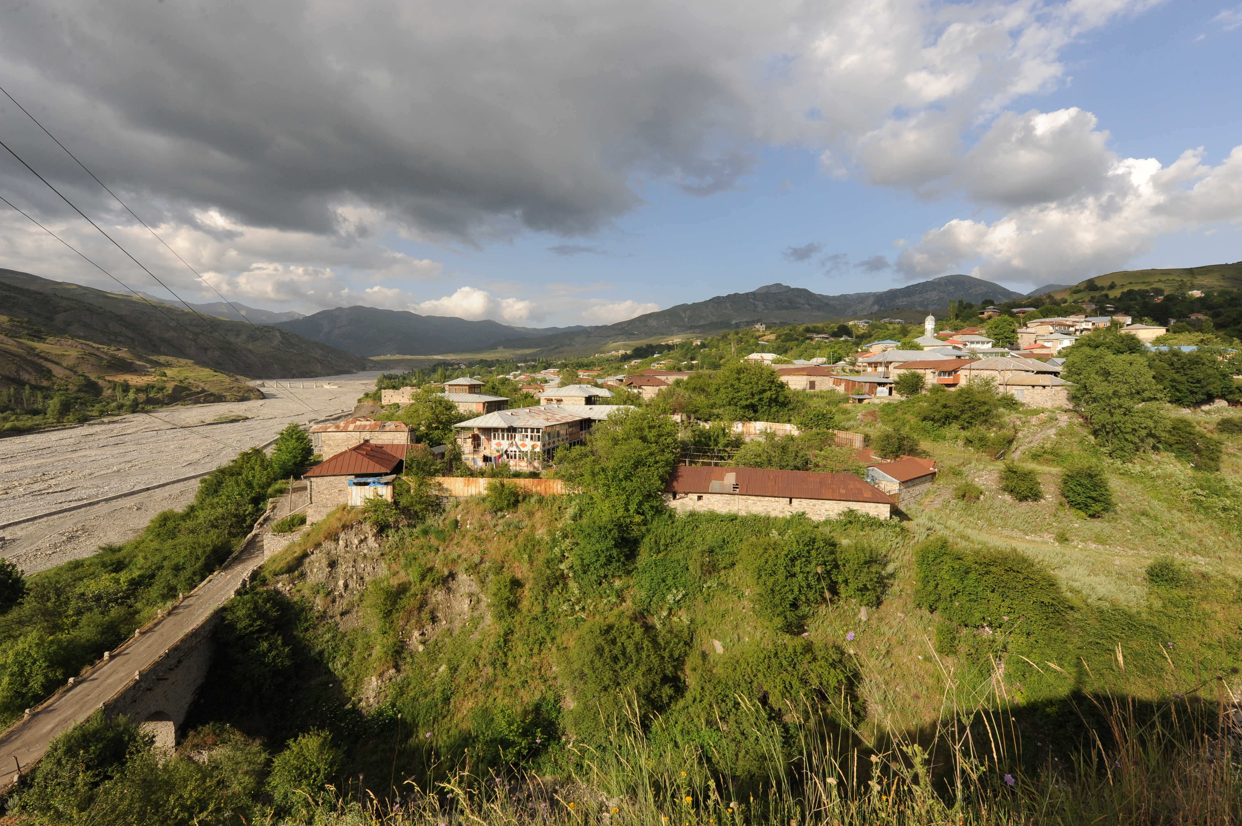 View of Lahij